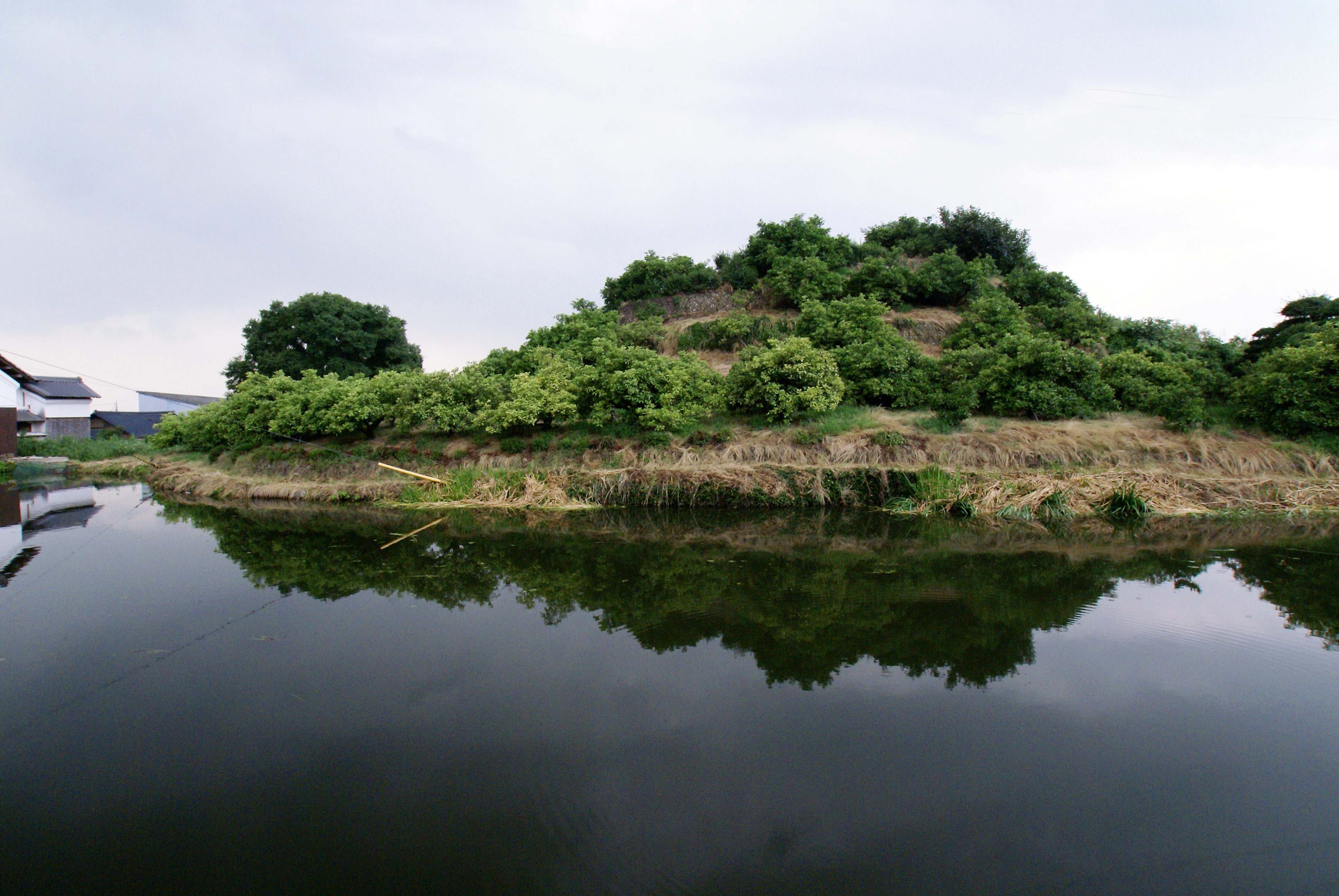 Nishiyamaduka-kofun in Tenri, Nara prefecture, Japan